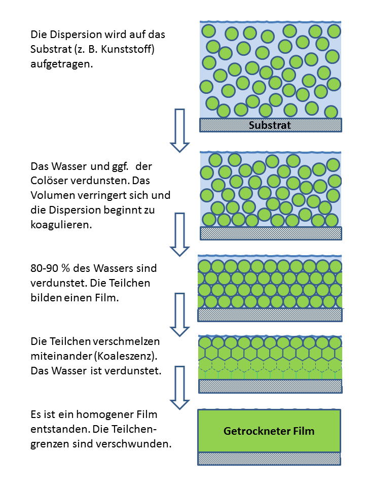 Consecutive steps of drying a polymer dispersion after having it casted on a substrate. While the water phase evaporates, the polymer particles come close together to touch each other (coagulation) and finally melt together to form a homogenous polymer film (coalescence).